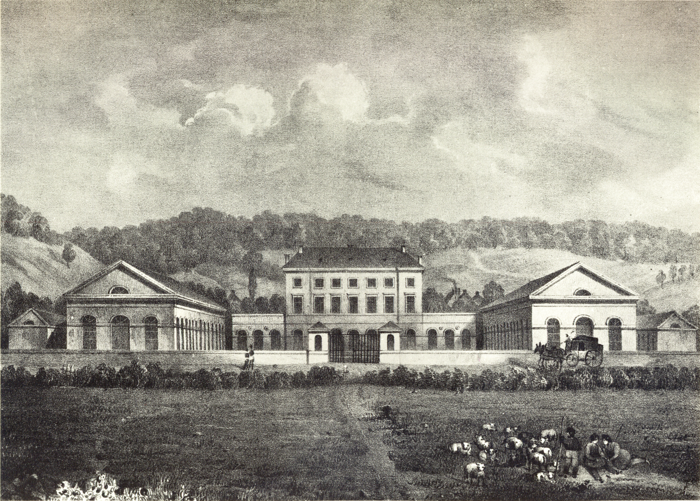 Royal horse stables of Walferdange, Luxembourg. Drawing.